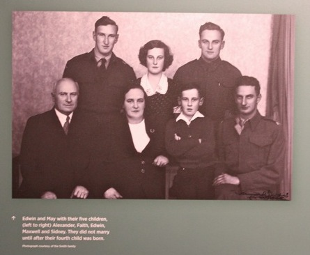 Photograph taken at The Voyager New Zealand Maritime Museum - The Immigrants - Edwin Henry Mason Smith - Family Photo post WWII